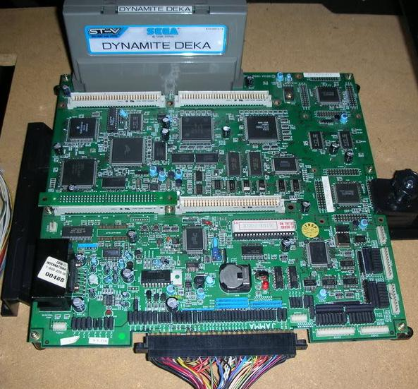 Sega ST-V PCB of Dynamite Deka